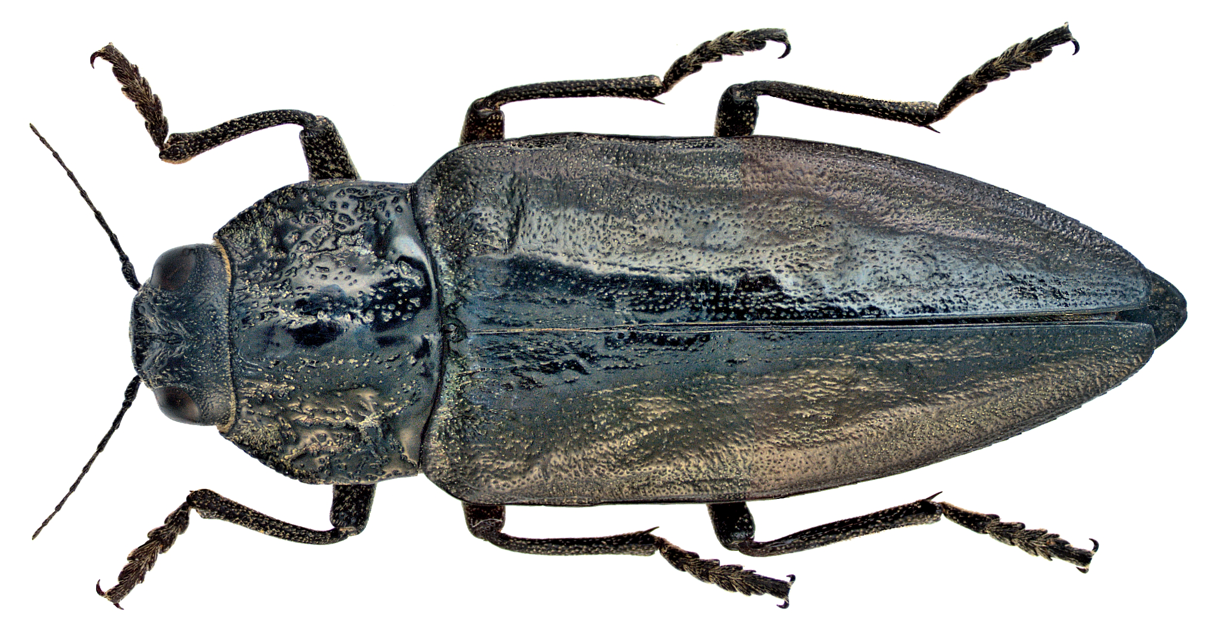 Family: Buprestidae Size: 36 mm Location: Greece, Sithonia, Nikiti leg.det. J.Schoenfeld, 7.VIII.2004 Photo: U.Schmidt, 2014